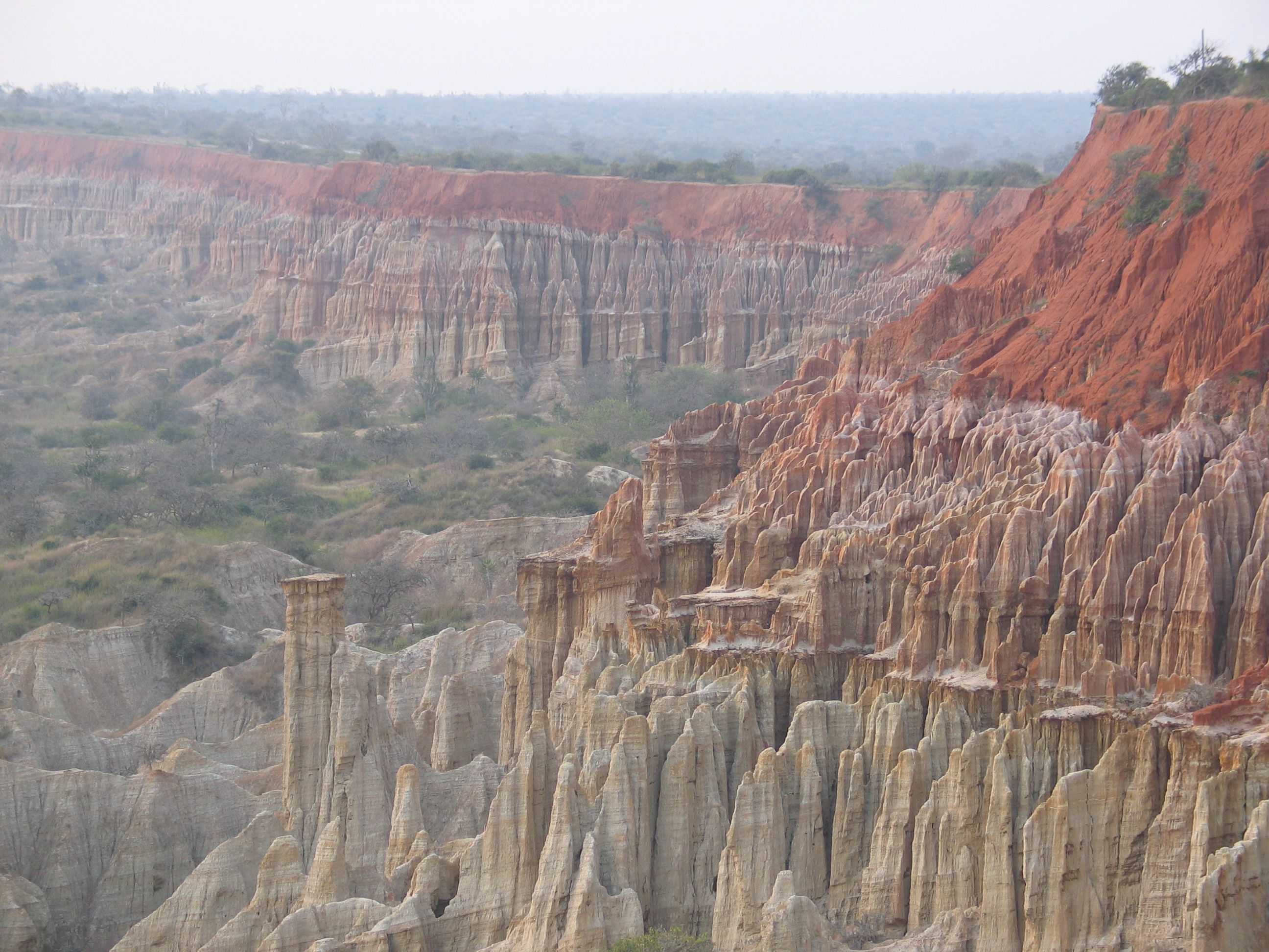 Miradouro da Lua (watchpoint or valley of the moon), situated at the coast 40 km south of Luanda, Angola